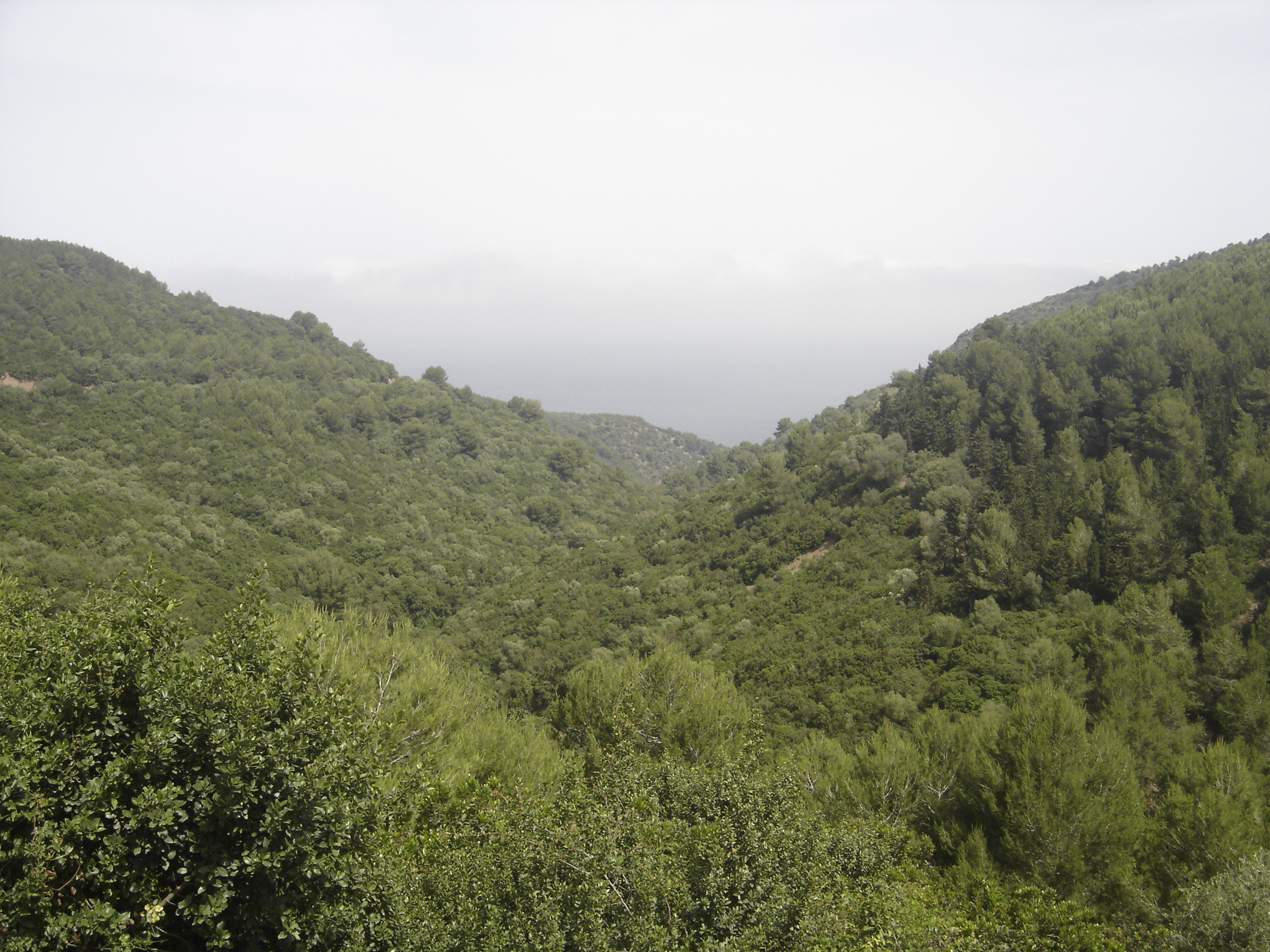 View of the Baïnem Forest Reserve in Bouzareah, Algiers